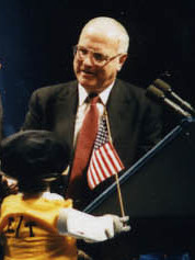 President Ronald Reagan, Robert Orr, Steven Beering, George McNelly, and John Mutz (2-30) At a podium with a robot speaking President Ronald Reagan and Jim Kuhn (31-32)